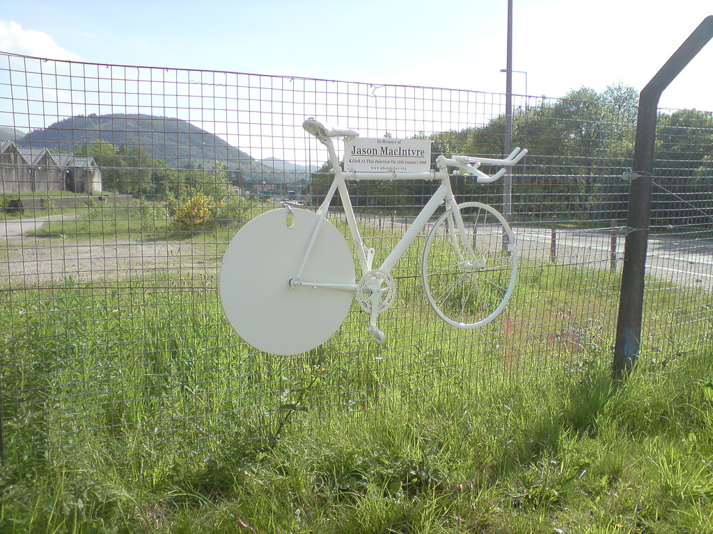 Ghost bike in memory of Jason MacIntyre, a Scottish racing cyclist who was killed after a collision with a van here, on 15 January 2008. At Carr's Corner, on the A82 north of Fort William.